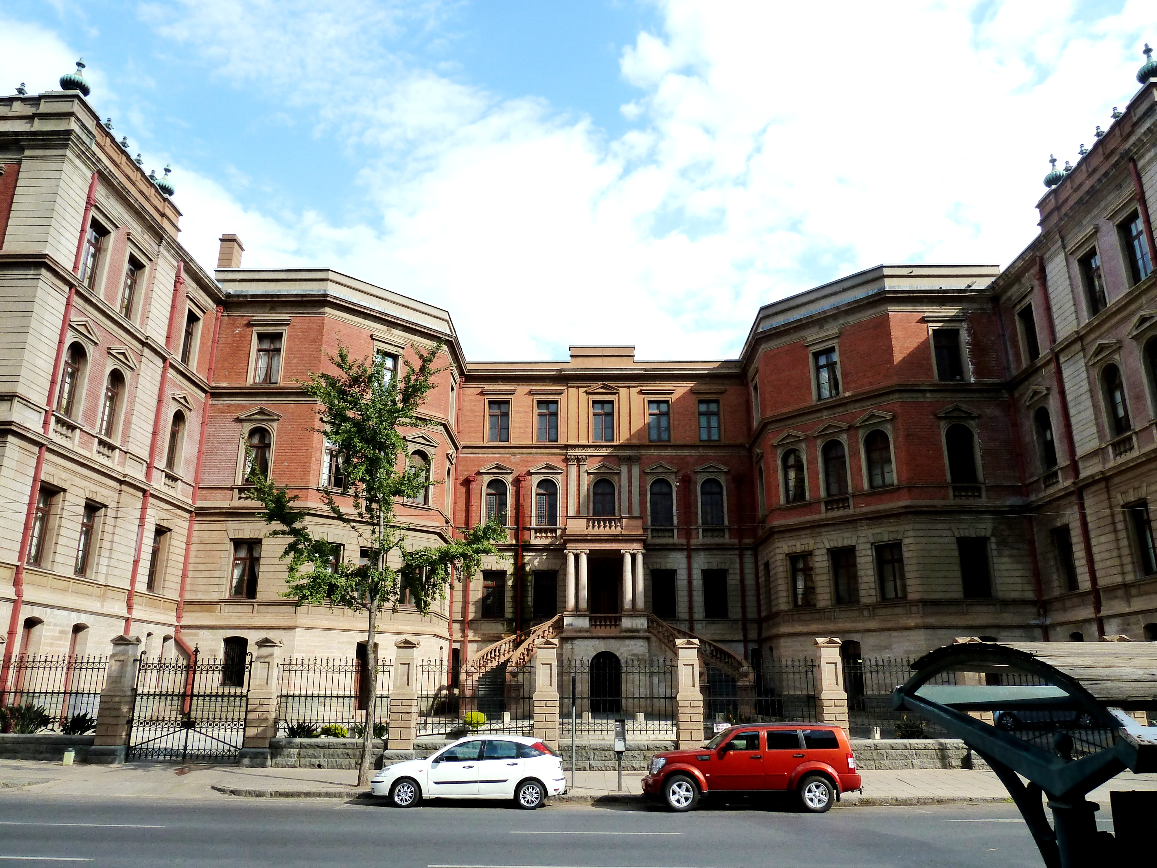 Northern aspect of the Palace of Justice, near Church Square, Pretoria